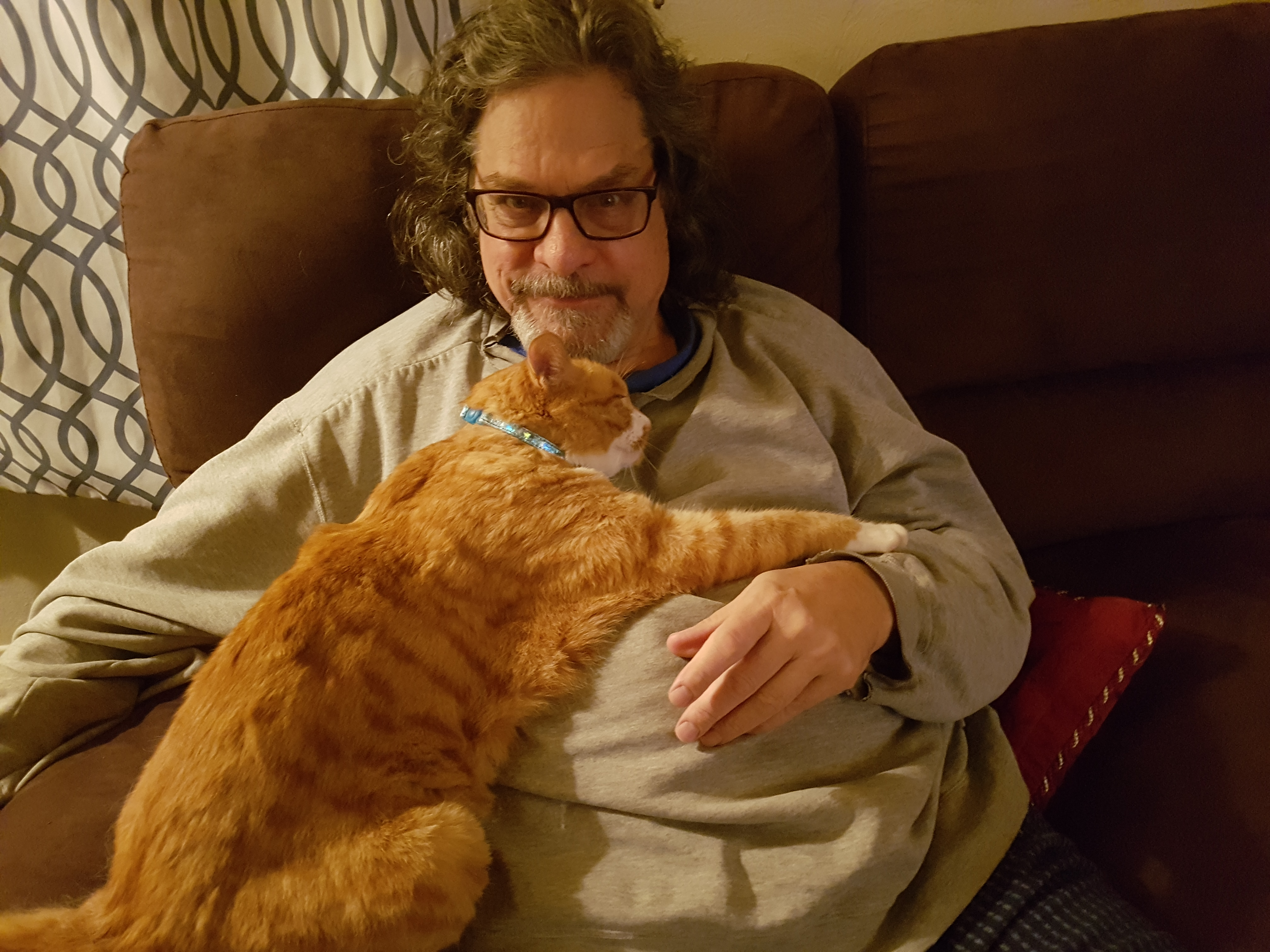 Norman is a rescue cat from the streets of Seoul, South Korea. He has learned to relax and give and receive love and affection. And he grabs on with a hug. This photo has been taken in the country: Canada